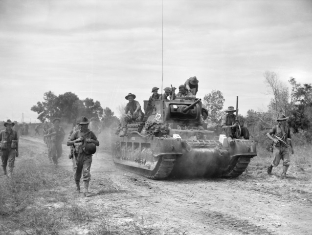 Troops from the Australian 2/43rd Infantry Battalion advance with a Matilda tank on Labuan, June 1945. The soldier on the far right is carrying an Owen submachine gun